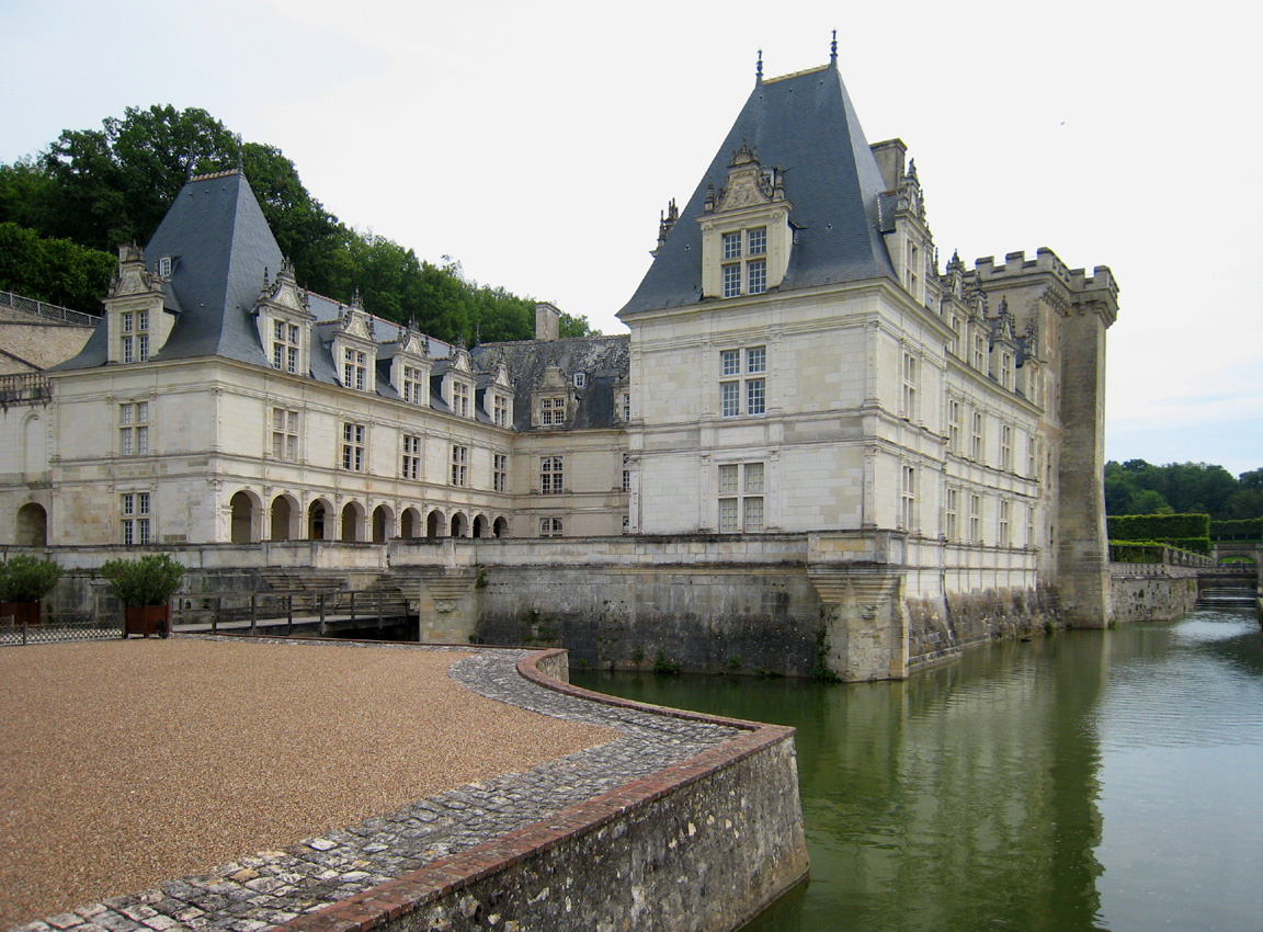 Chateau de Villandry, castle and moat